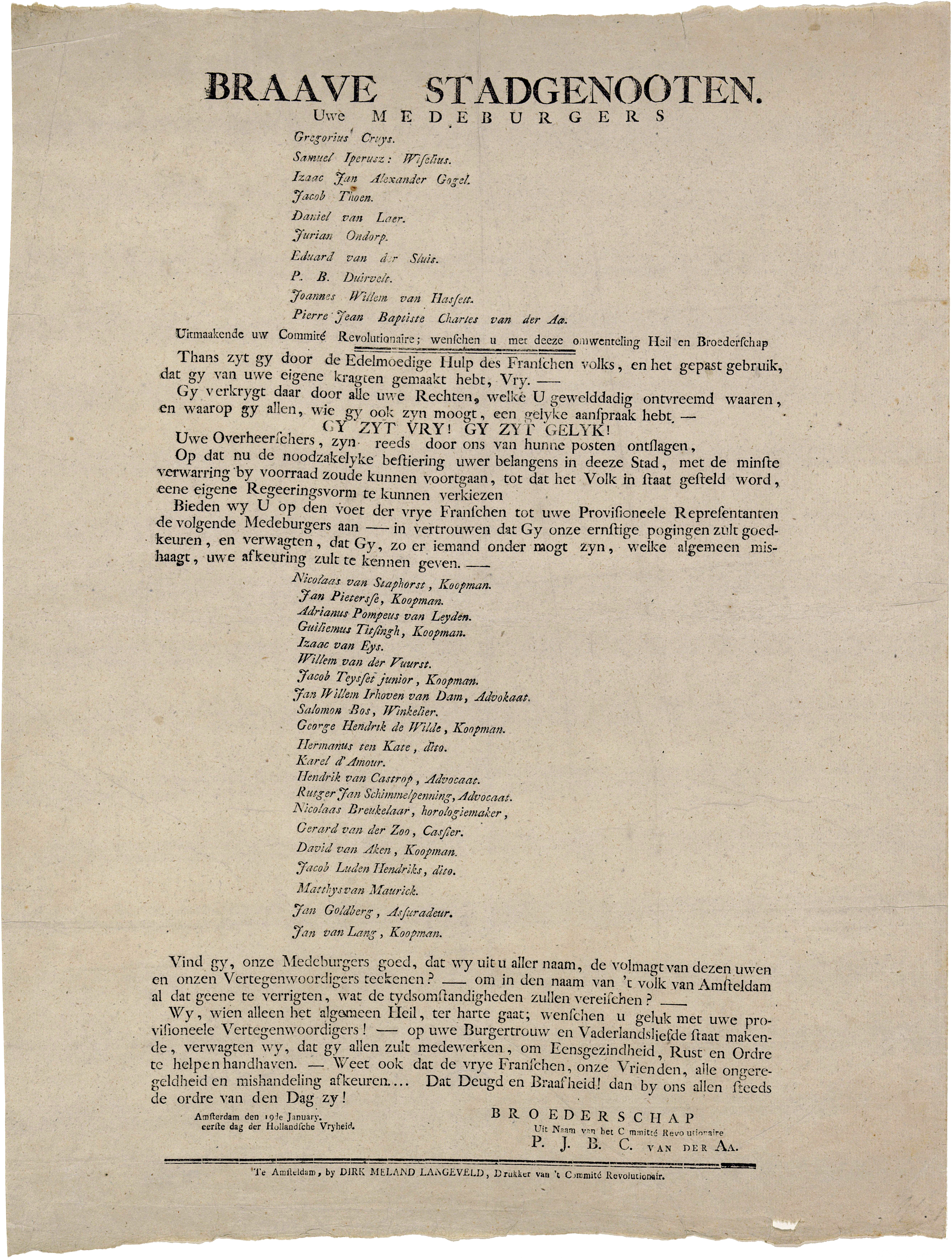 Proclamation of freedom, by Pierre Jean Baptiste Charles van der Aa (secretary) on behalf of the Revolutionary Committee of Amsterdam, in Amsterdam on 19 January 1795. With a list of the names of the members of the Revolutionary Committee and a list of names of proposed Representatives.